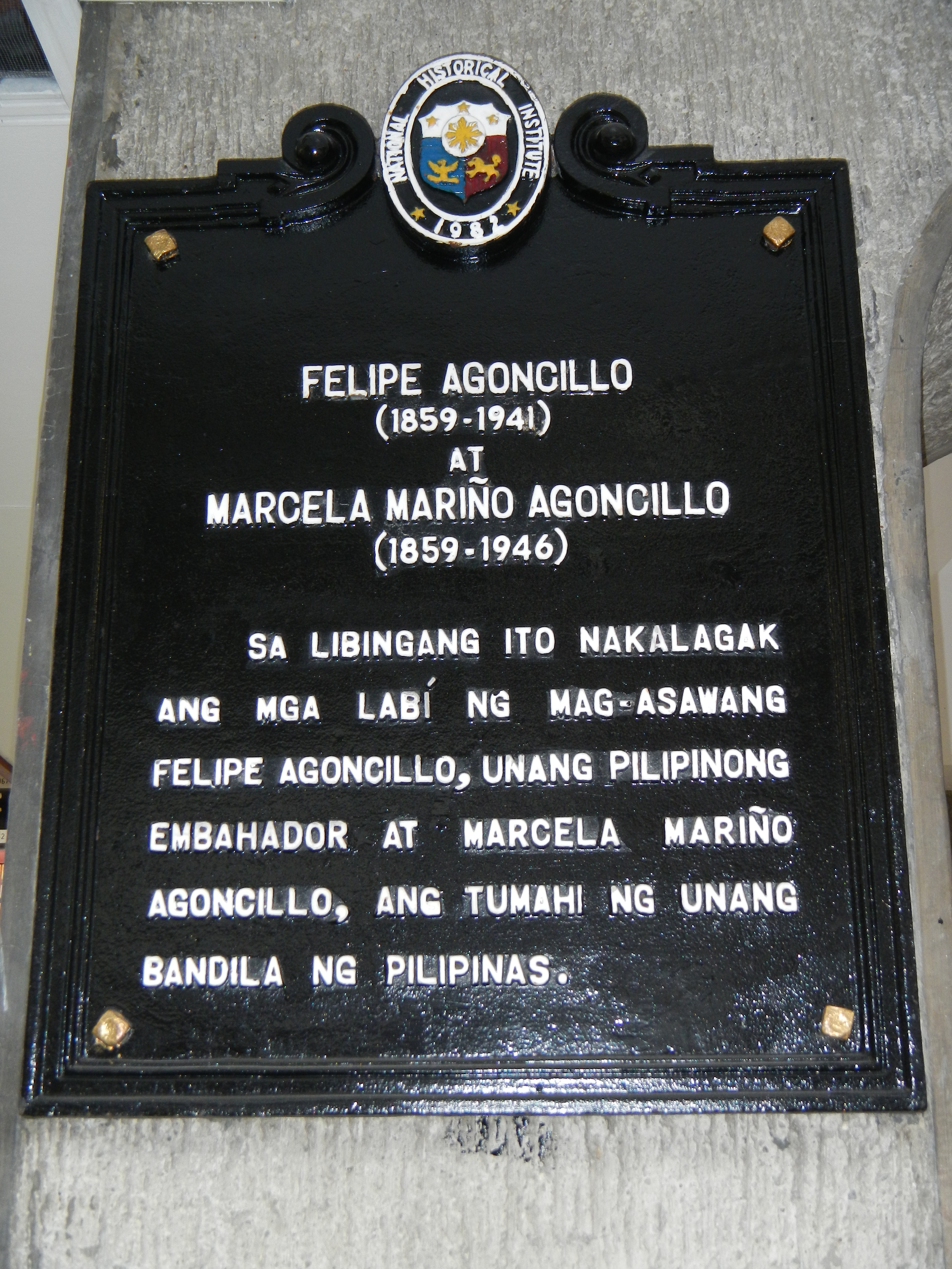 Graves of [1]Felipe Agoncillo [2]Marcela Mariño de Agoncillo San Juan, Metro Manila[3] 1602 Santuario de Santo Cristo Parish Church (Church of Santo Cristo), the Church of San Juan del Monte - NHI Marker